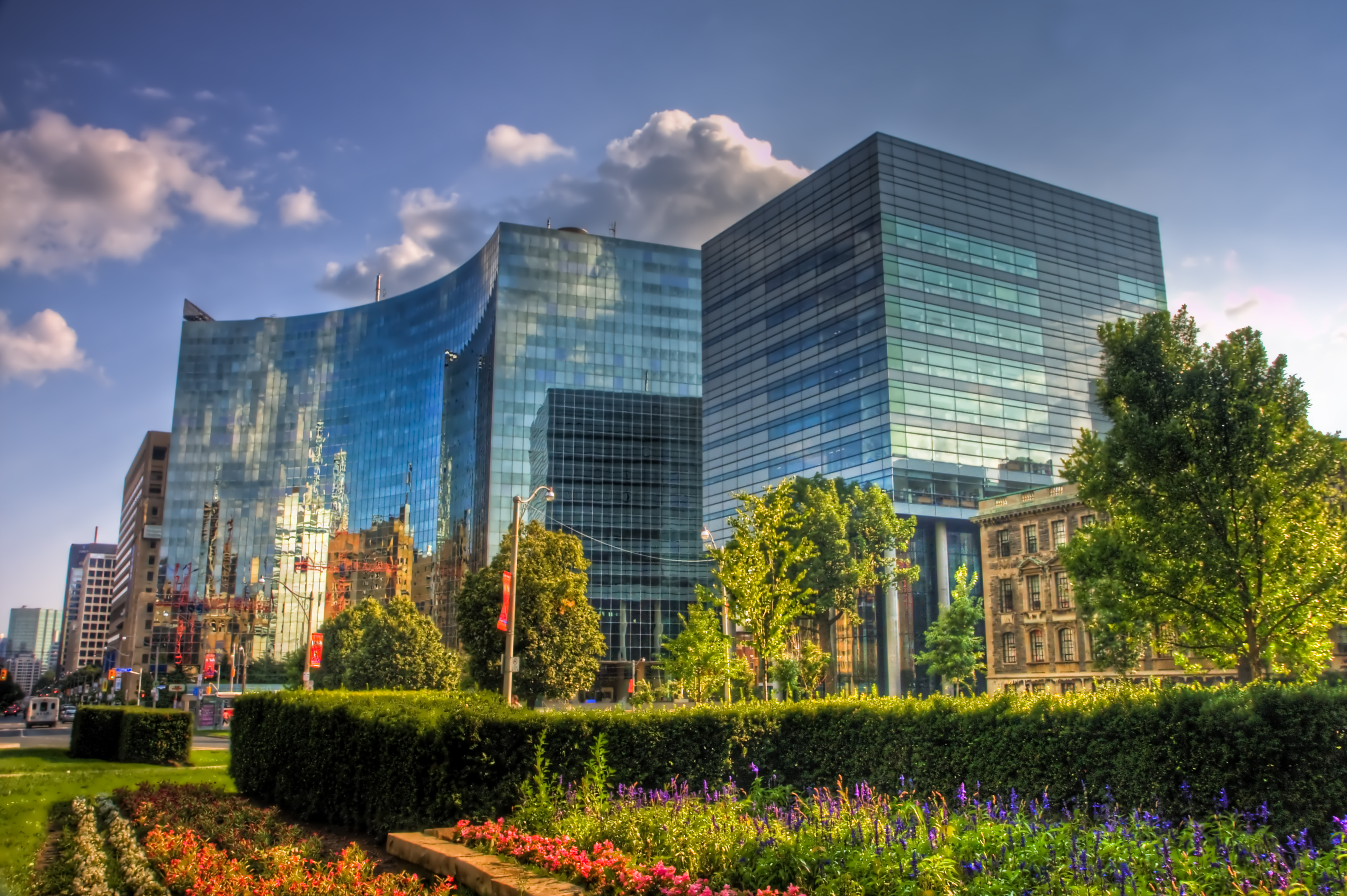 The Leslie Dan Pharmacy Building and the Toronto Hydro building as viewed from Queen's Park. Toronto, Canada.